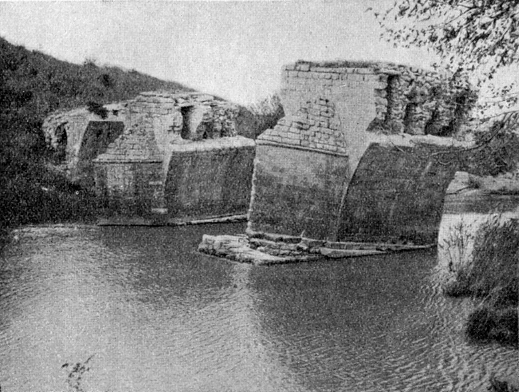 Roman bridge over the Aesepus river (Gönen Çay), Mysia, Turkey. It is notable for its advanced hollow chamber system which has also been employed in other Roman bridges in the region. In a field examination carried out in the early 20th century, the four main vaults of the bridge were found in ruins, while nearly all piers and the seven minor arches had still remained intact; the present state of preservation is unknown.